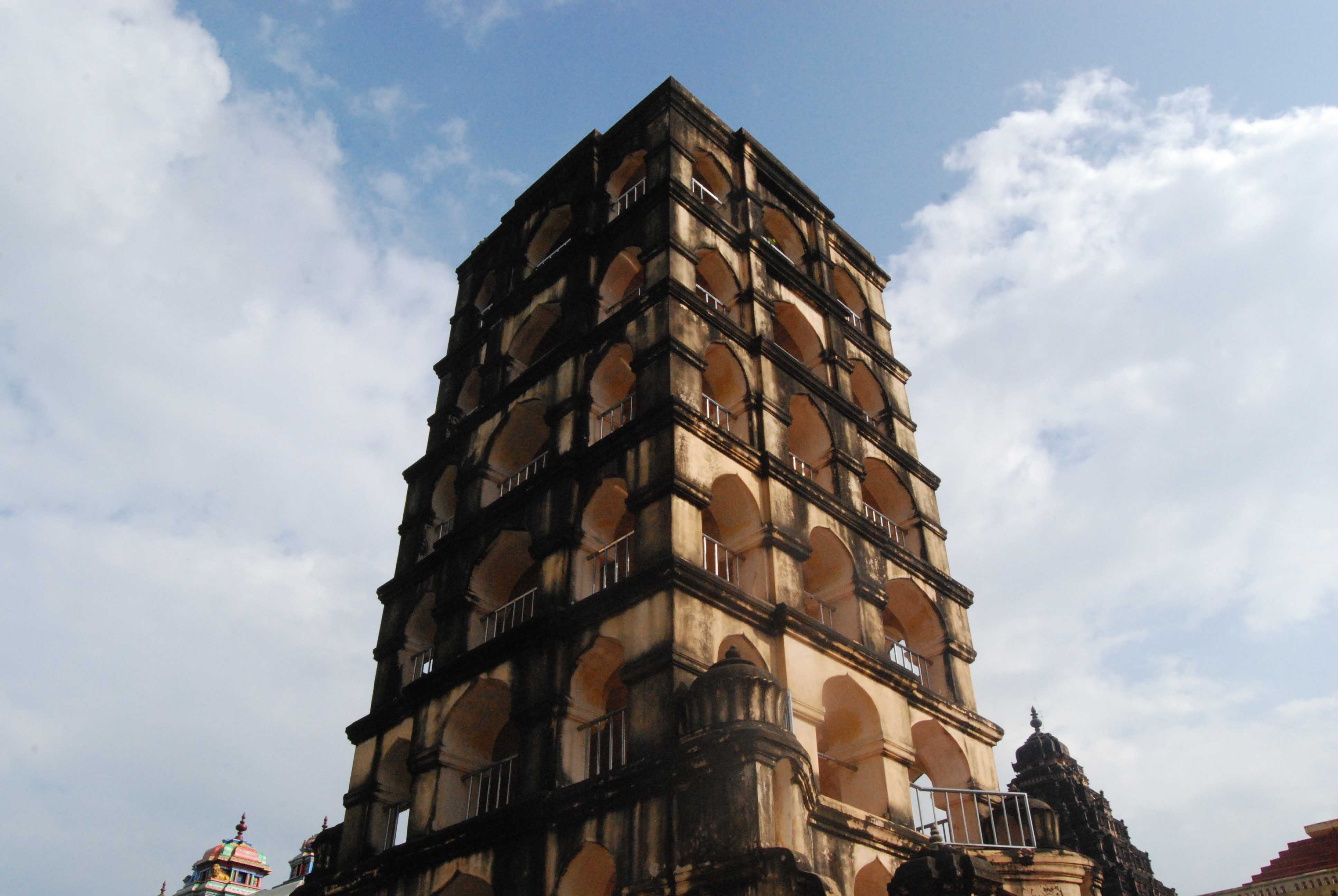 Bell tower, tanjore palace museum